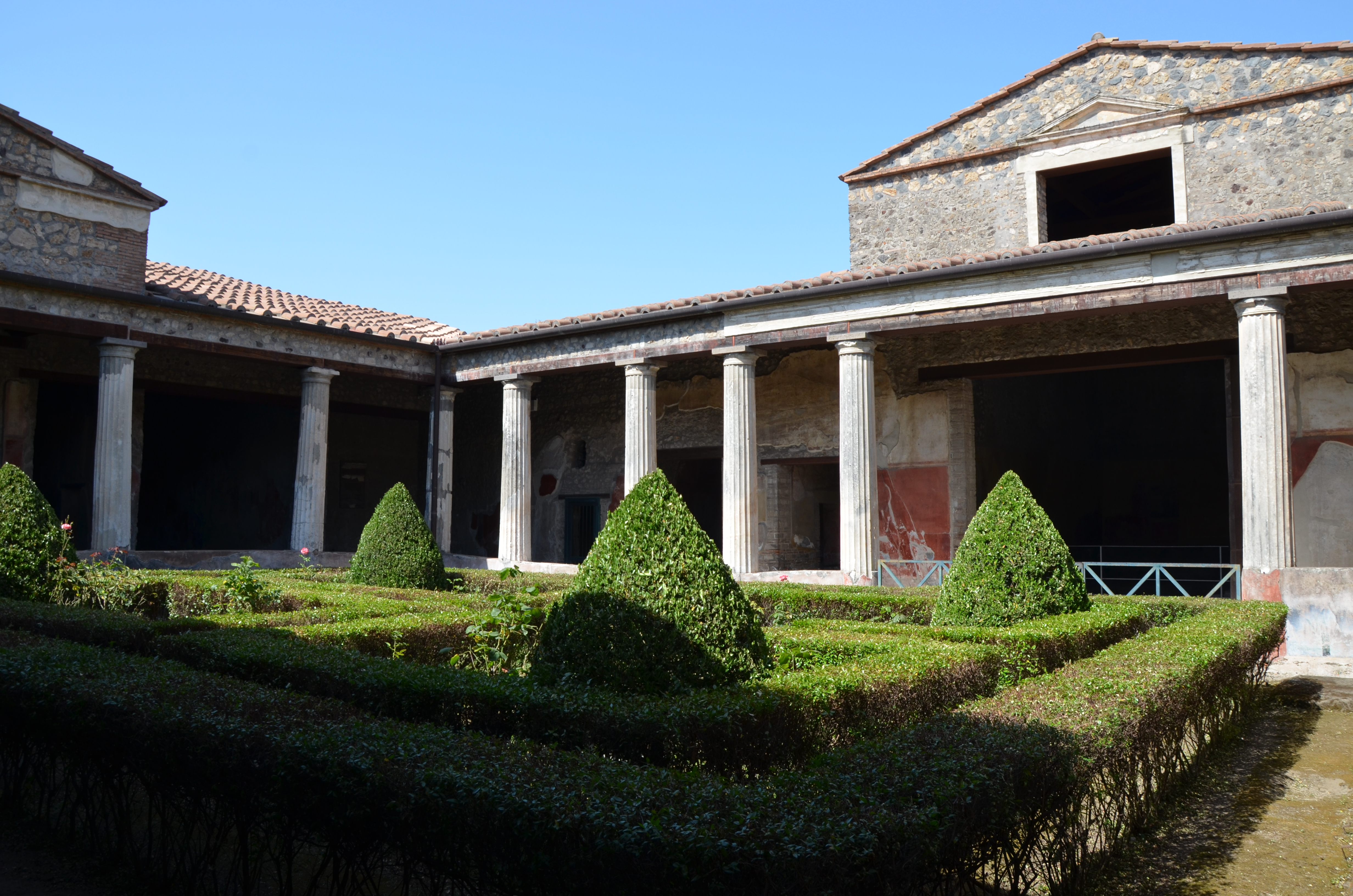 The peristyle is porticoed on all four sides with twenty three Ionic columns supporting the inner margins of the roof. A small wall (pluteus) connects the bases of the columns to enclose the garden. The walls of the ambulatories were painted in the fourth style with red panels with ornamental borders above a lower black frieze. The upper zone was painted white. The pluteus was also painted in the fourth style with a black background and panels of animals and birds. The columns of the peristyle are of tufa with fluted tops over circular stuccoed bases. The upper fluted shafts were painted white, while the lower parts were black on the garden side, corresponding to the pluteus, and alternating red and yellow on the ambulatory side. In the middle of the peristyle is a garden with a rectangular pool with a fountain. Source